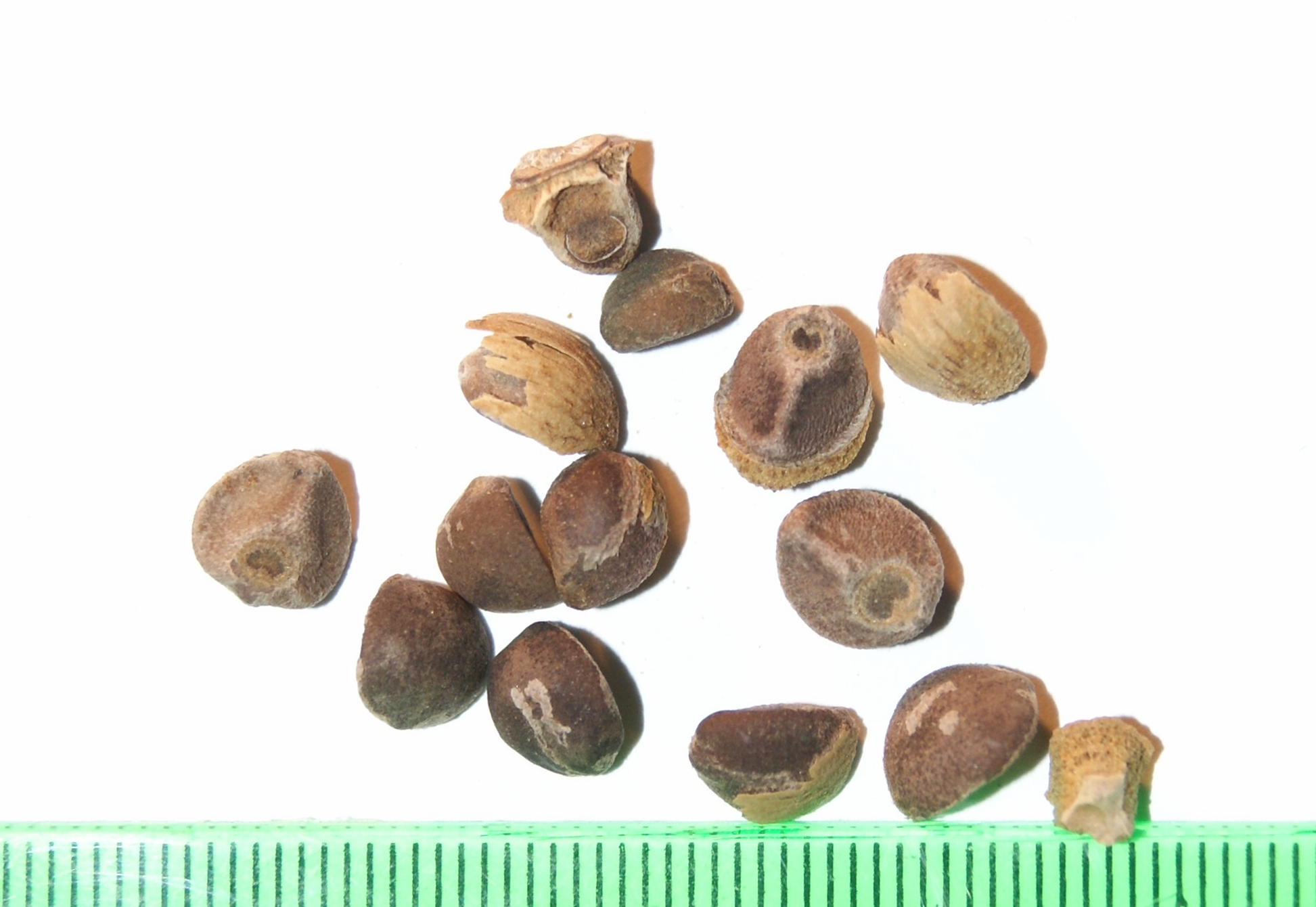 Argyreia nervosa